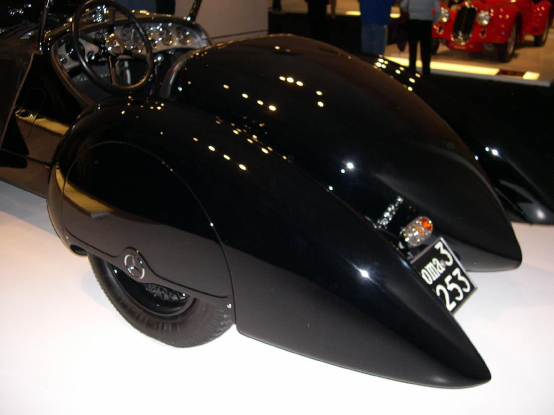 1930 Mercedes-Benz SSK "Count Trossi" From the Ralph Lauren collection on display at the Boston Museum of Fine Arts. Photo taken in 2005.